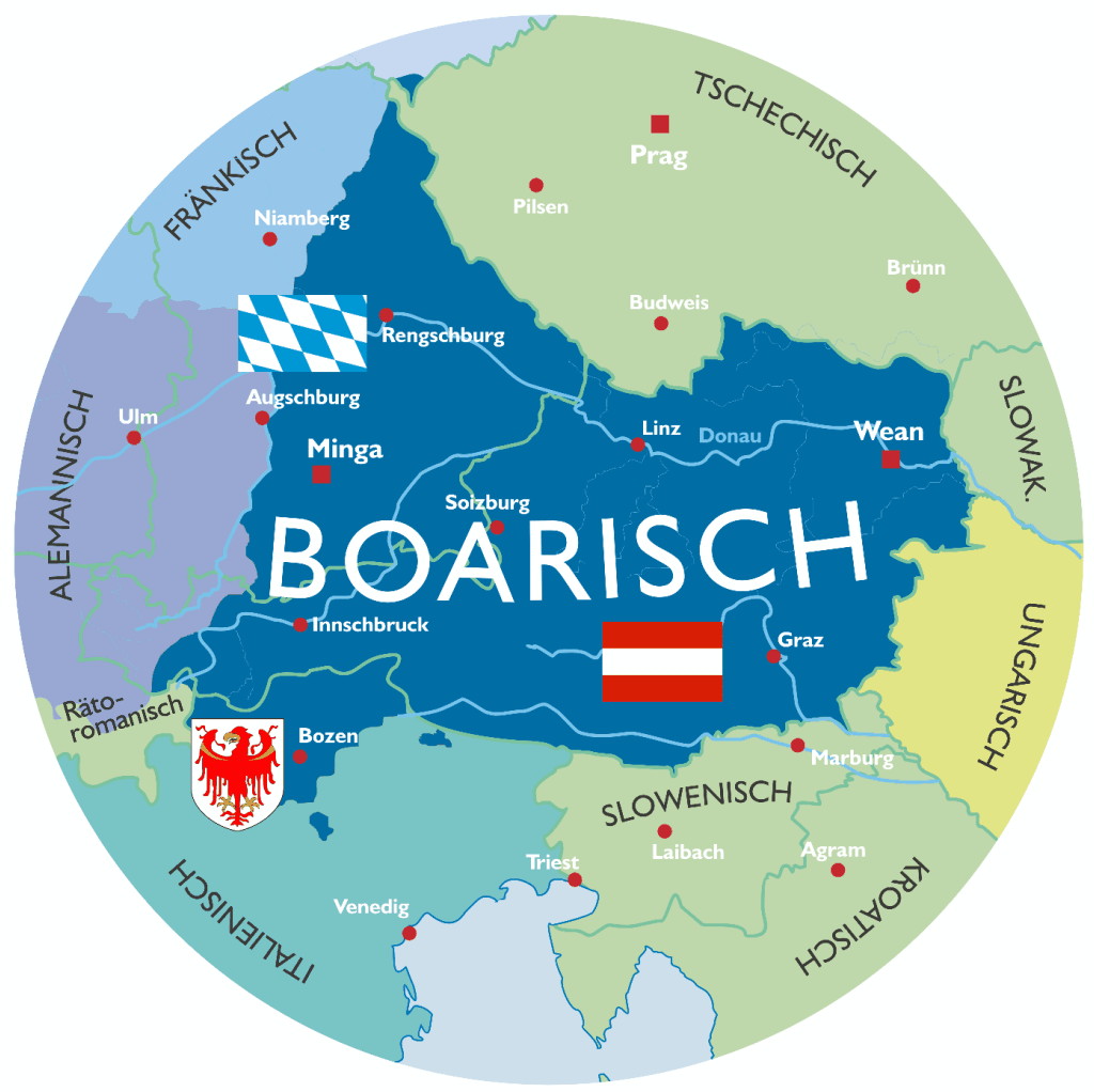 Map of Bavarian-speaking areas with flags and names in Bavarian